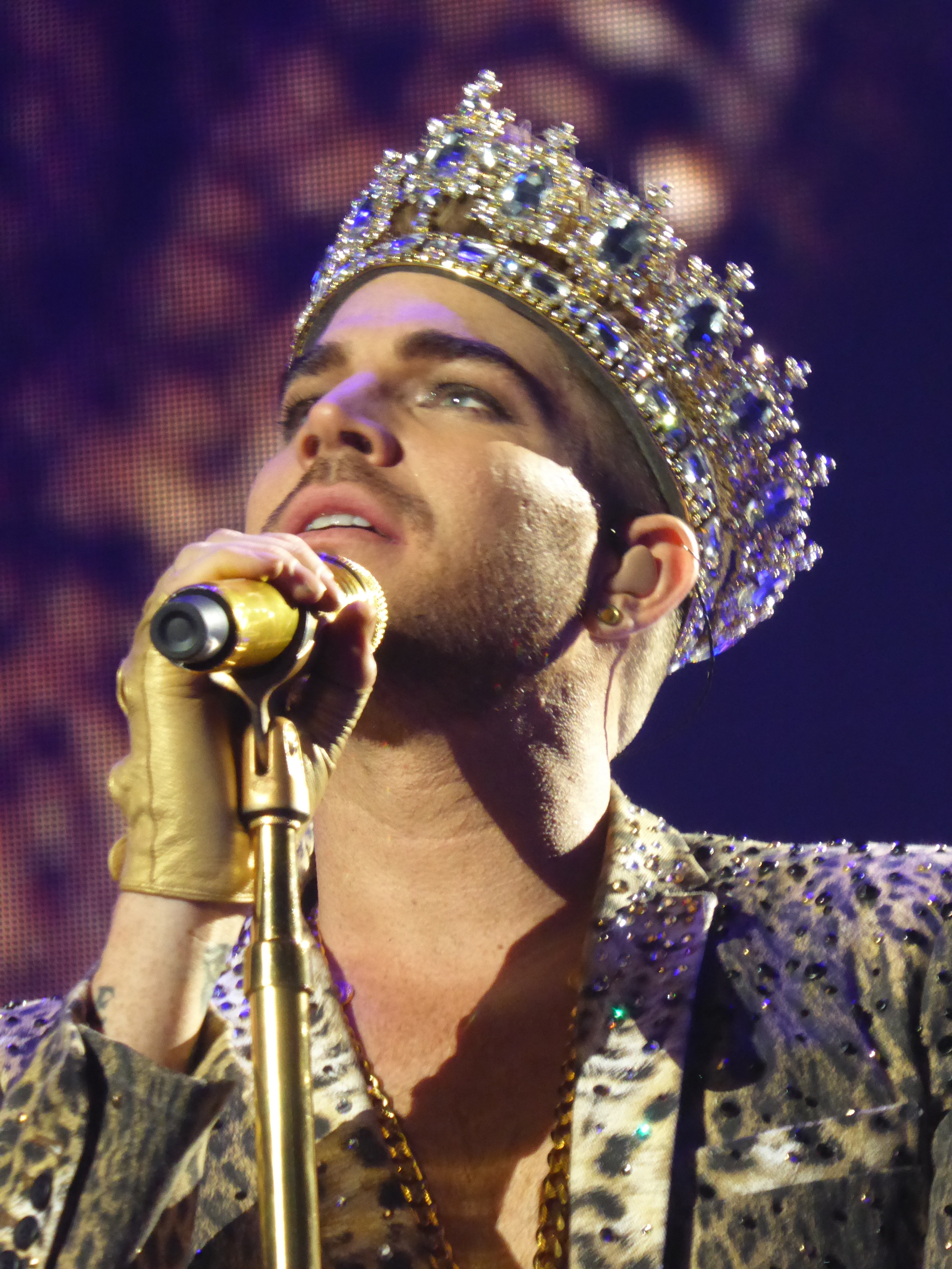 Adam Lambert performing with Queen in Toronto on July 28, 2014